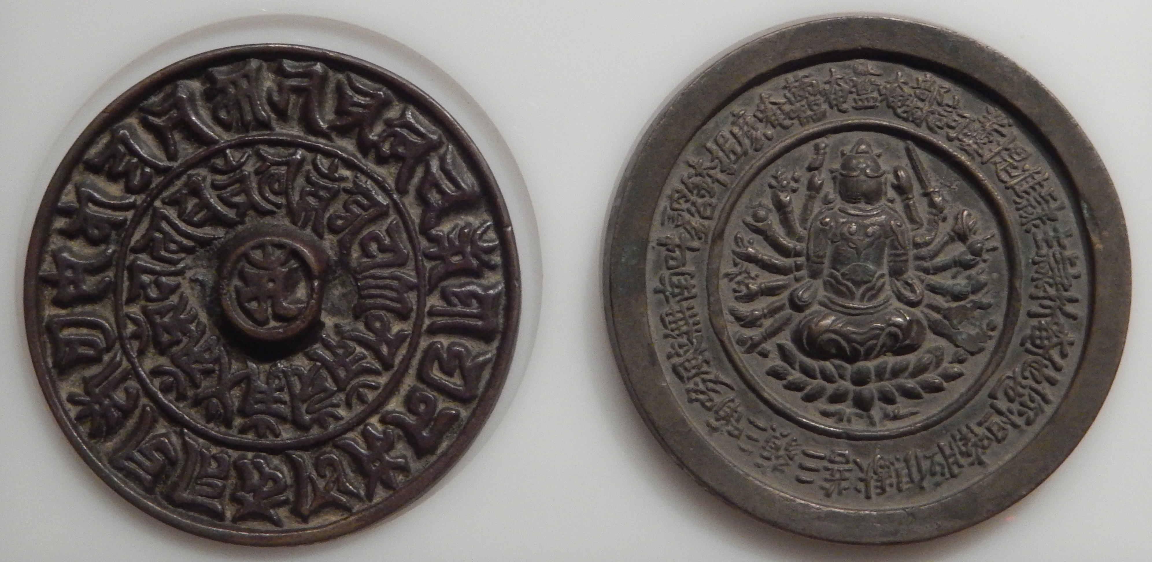 Pair of bronze mirrors showing the Cundi-Avalokiteśvara Boddhisattva, one with a Sanskrit inscription in Lantsa script, and one with a Sanskrit inscription in Chinese script. Yuan dynasty (1271–1368). Held at the Capital Museum, Beijing.中文（中国大陆）: 元代准提观音菩萨铜镜。首都博物馆藏。